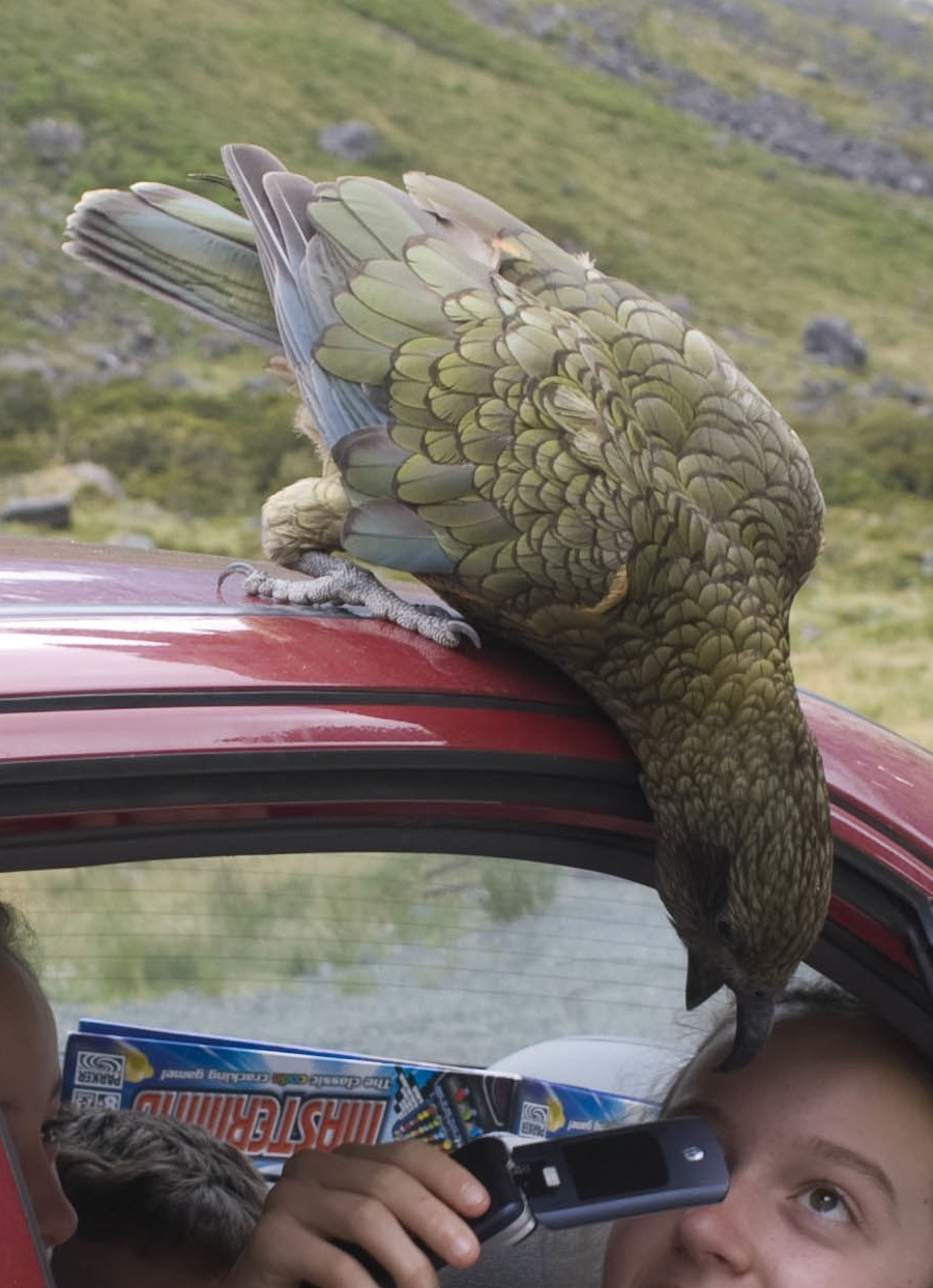 A kea investigates a carload of tourists.